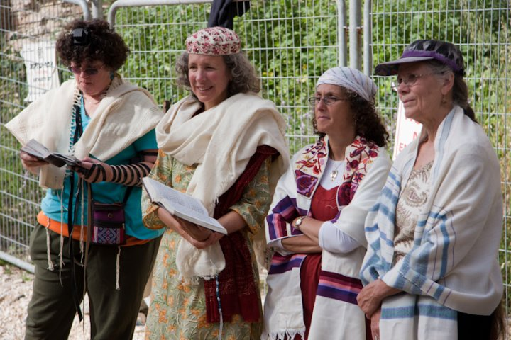 Group of Women of the Wall during prayer